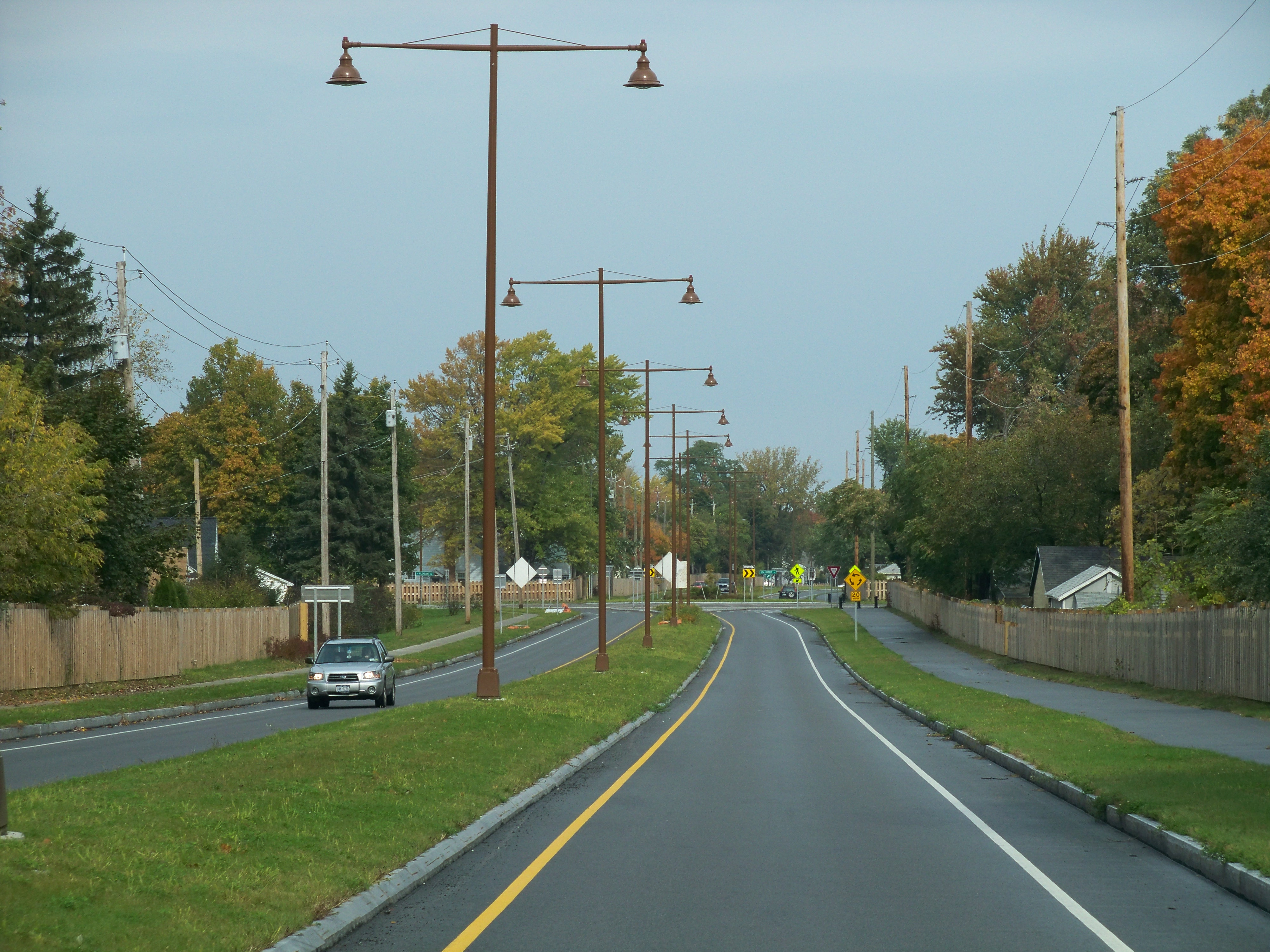 Approaching Point Pleasant Road on Sea Breeze Drive (former New York State Route 590) northbound.